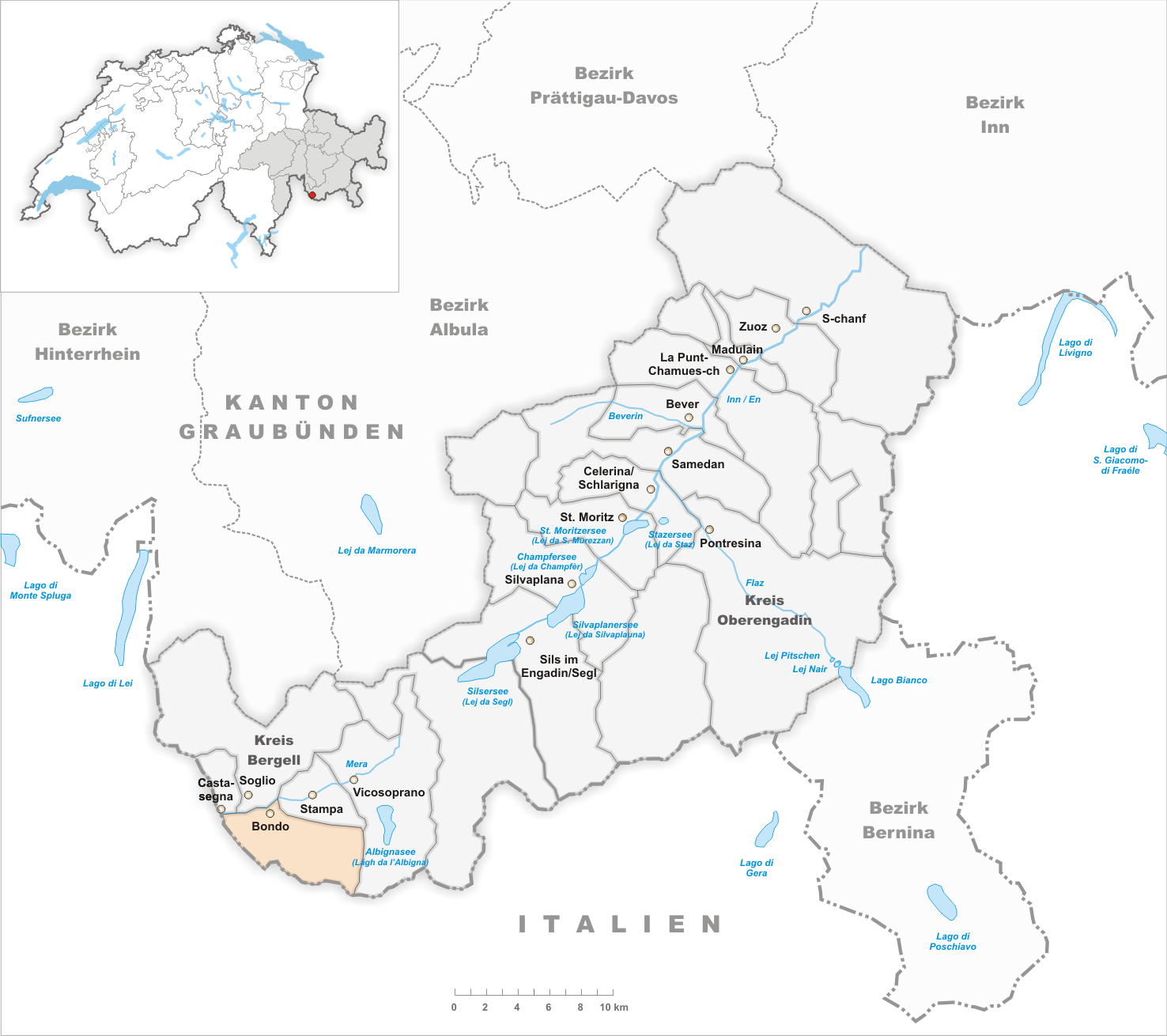 Municipality Bondo